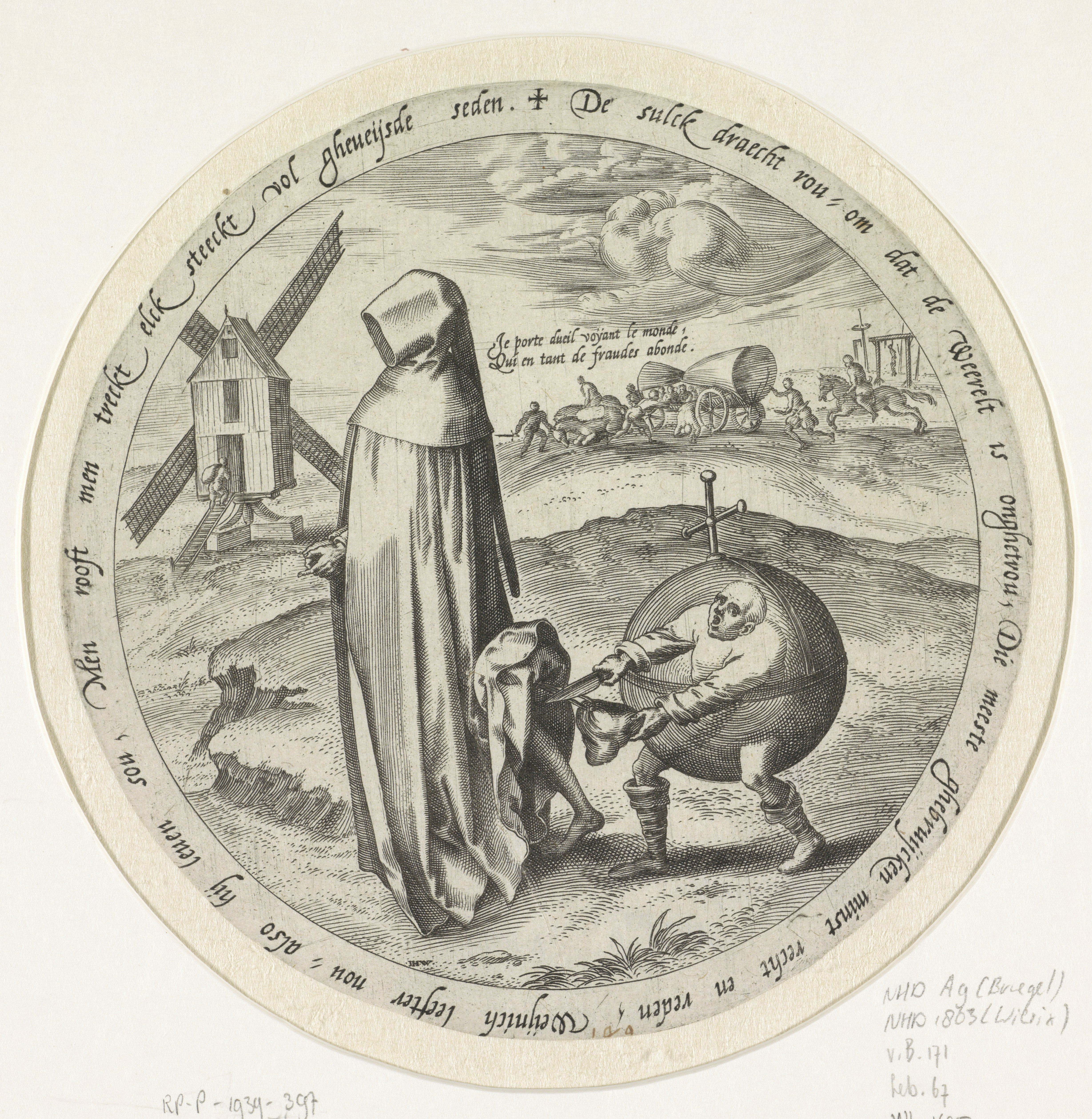 The Misanthrope Robbed By the World. Engraved by Jan Wierix after Pieter Bruegel the Elder as part of a 12-piece series on Flemish proverbs. Rijksmuseum RP-P-1939-397.